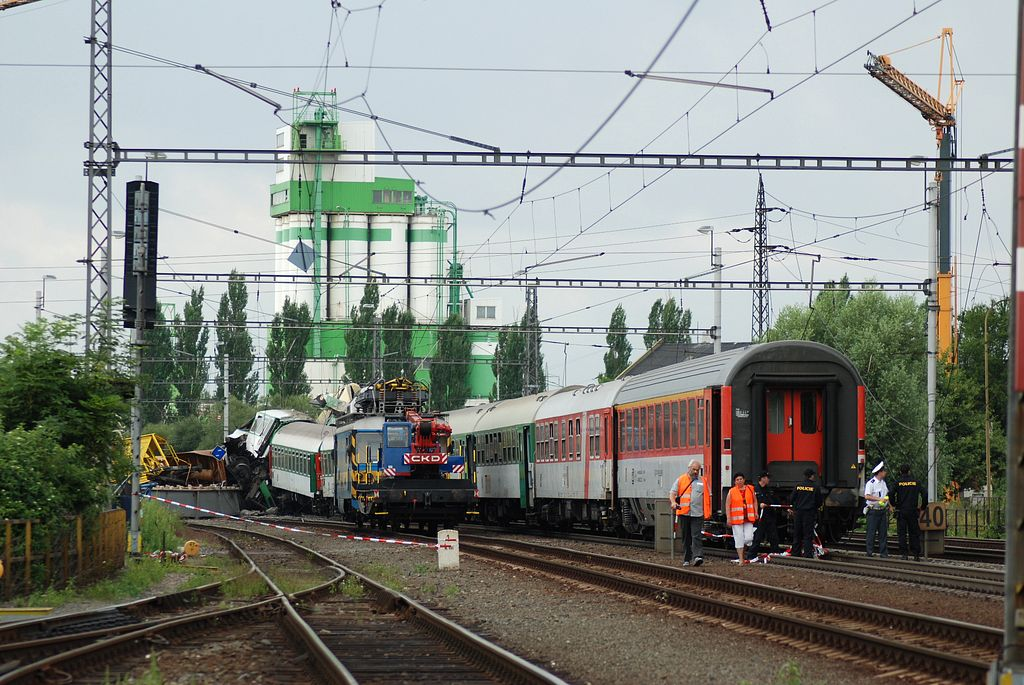 Train accident in Studenka